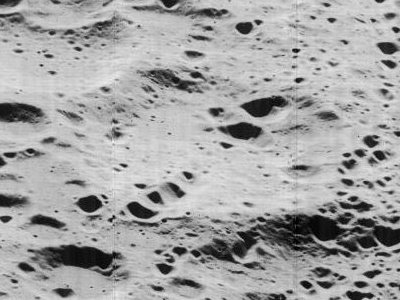 Oblique view of Chandler, on the far side of the moon, facing west.